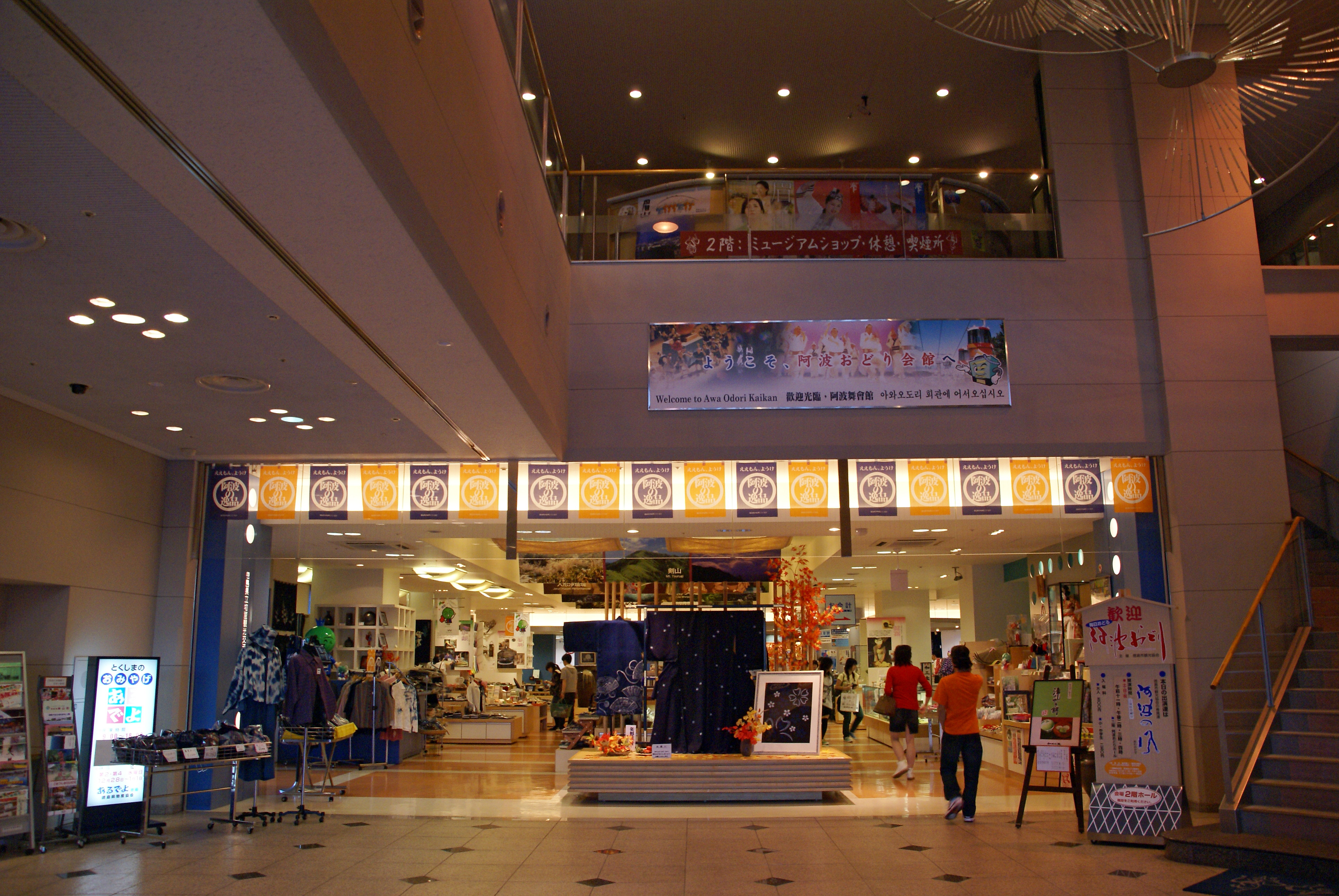 Awa Dance Memorial Hall in Tokushima, Tokushima prefecture, Japan